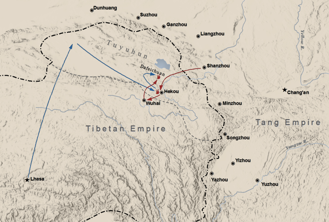 Map of the Battle of Dafei River (Dafeichuan) between Tibetan Empire and Tang dynasty of China.